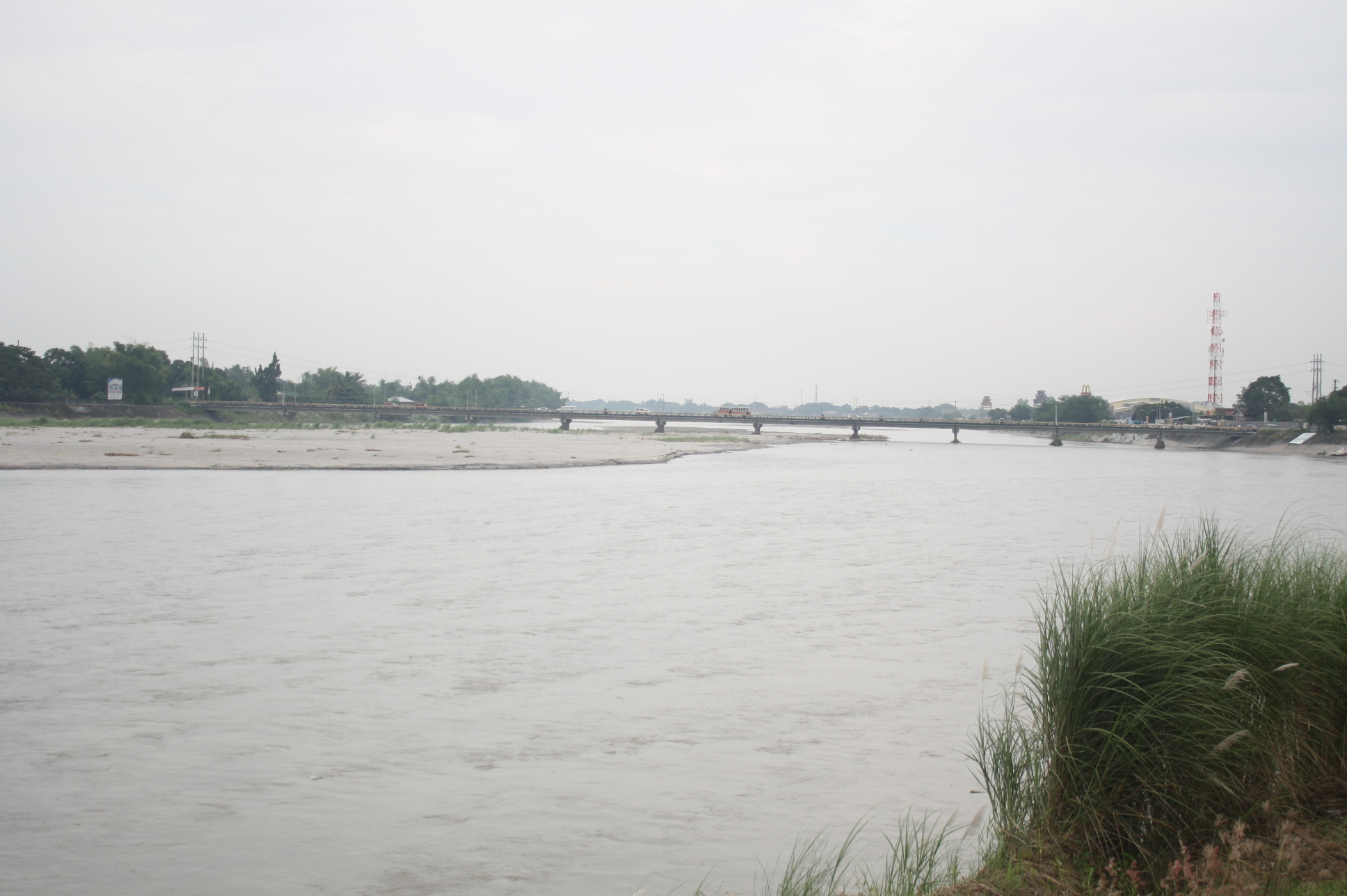 The Aquino Bridge, one of the two bridge connecting the western portion of Tarlac City to the Poblacion area, on the Tarlac River.